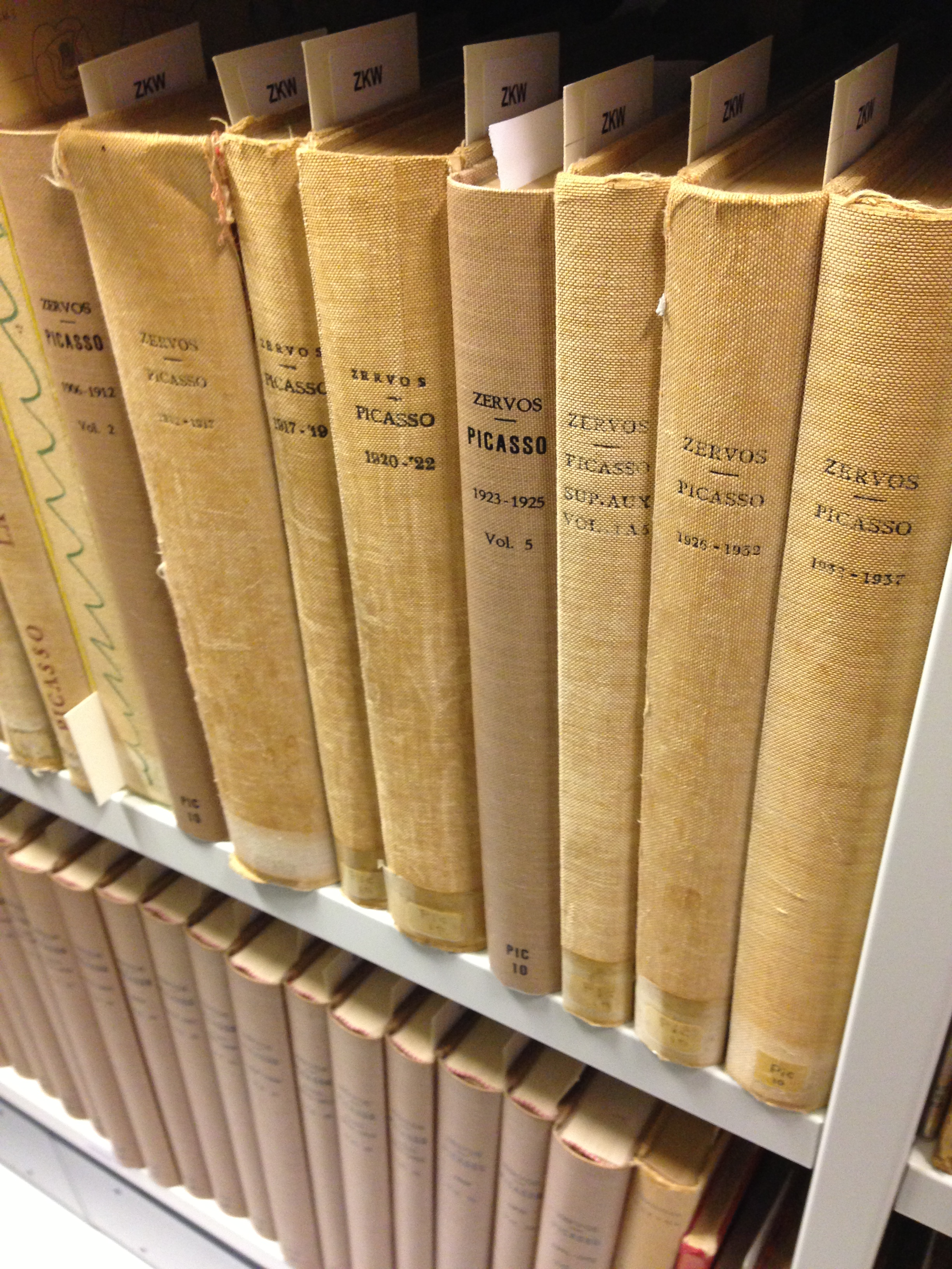 The complete Picasso catalogue raisonné at the Stedelijk